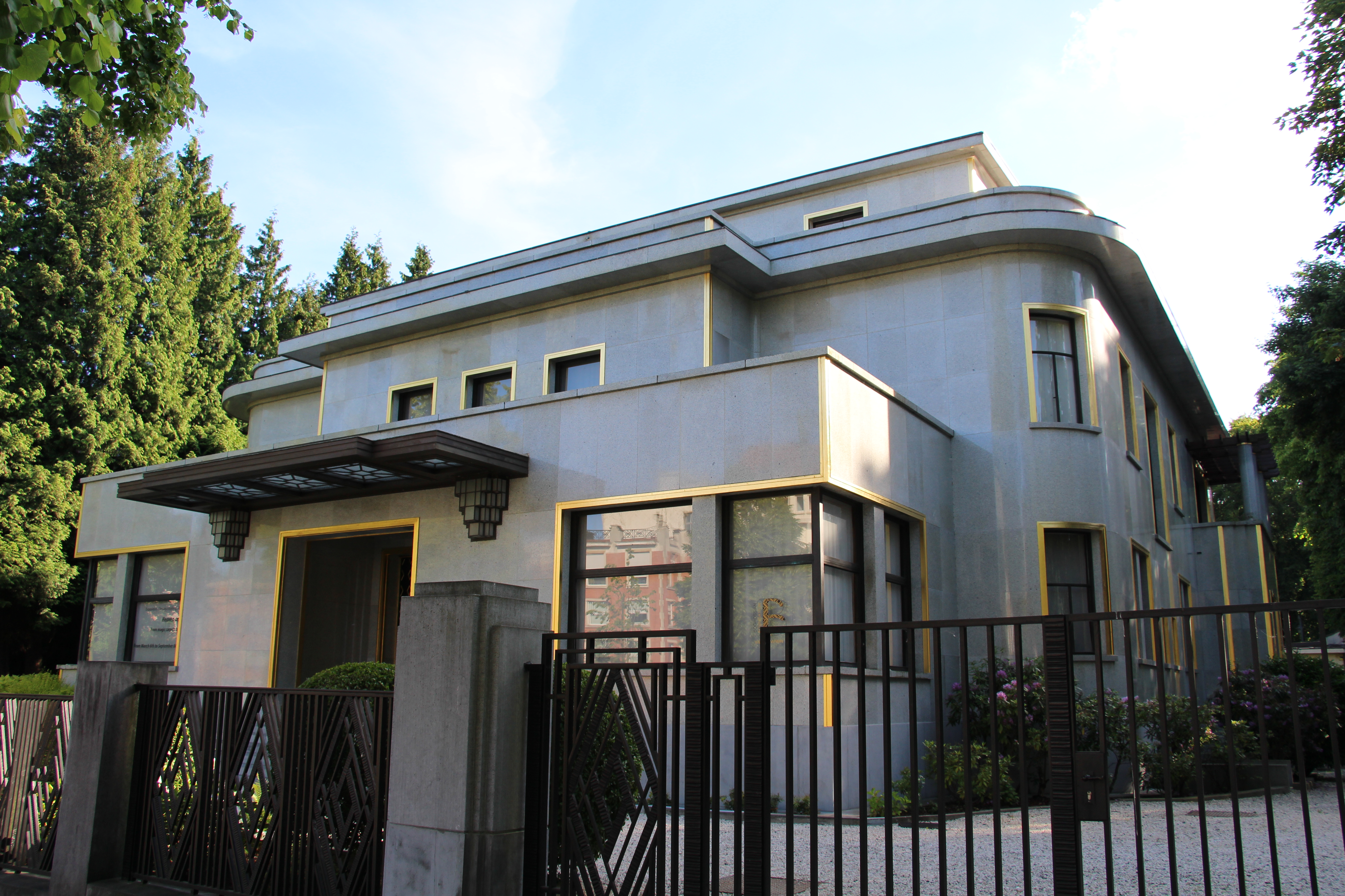 Ixelles. Avenue Franklin Roosevelt Villa Empain. Arch. Michel Polak 1931-34. In 2008, the Fondation Boghossian acquired the Villa Empain and initiated an extensive renovation program. Inaugurated in 2010, the villa is a cultural centre and hosts art exhibitions, concerts and conferences.